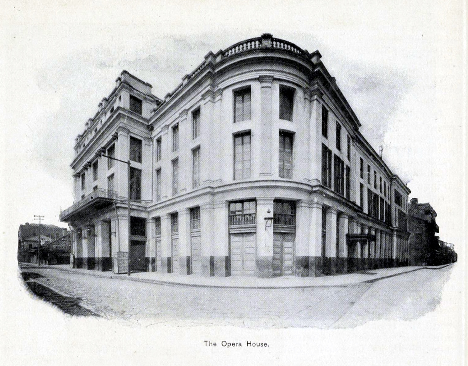 New Orleans Opera House, better known in its later decades as the old French Opera House. It was located on Bourbon Street at Toulouse.